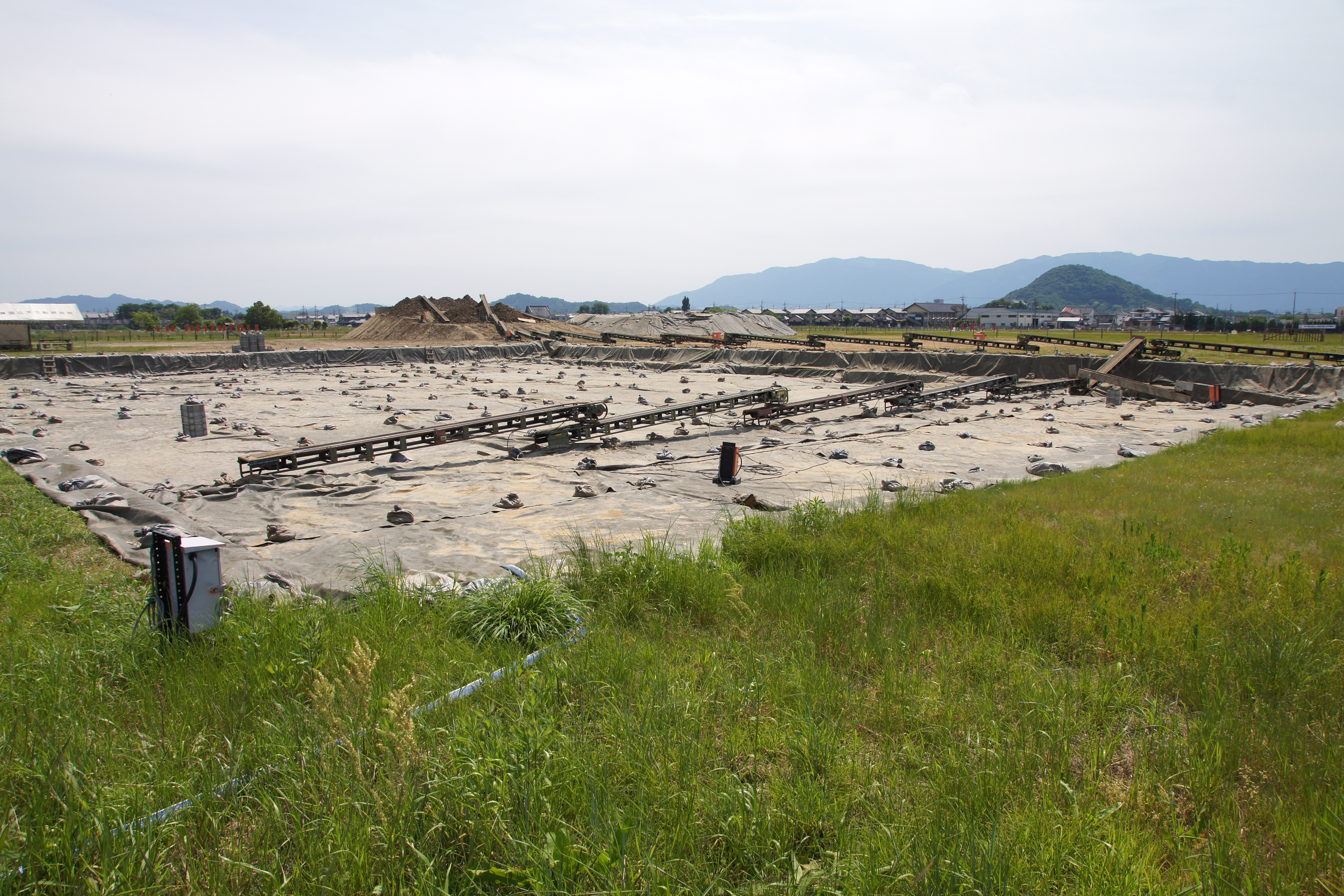 Fujiwara-kyō ruins in Kashihara, Nara prefecture, Japan